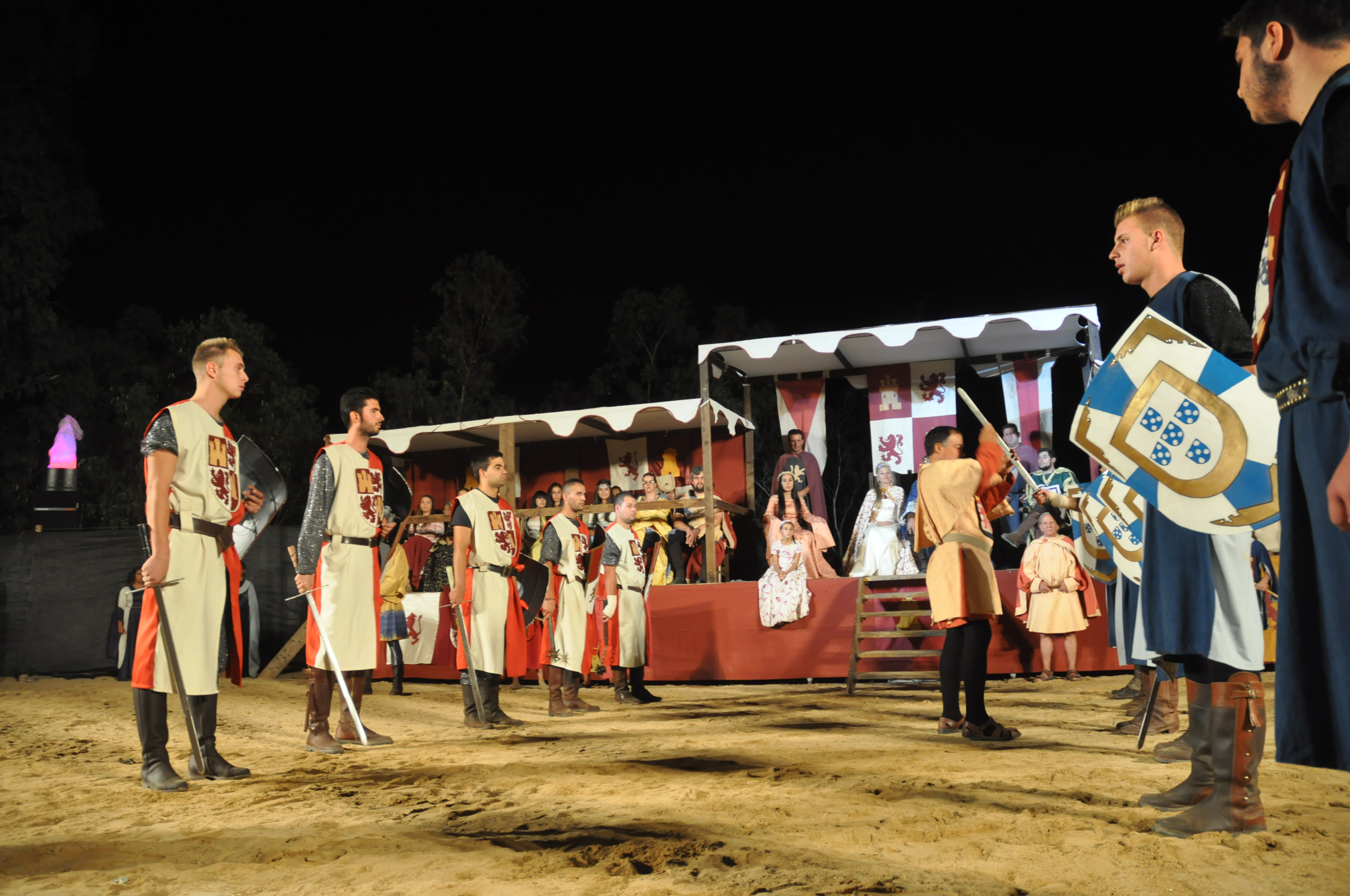 Medieval Festival from Alburquerque This is a photography of a Folklore festival in Spain (Wikidata id Q23662027).